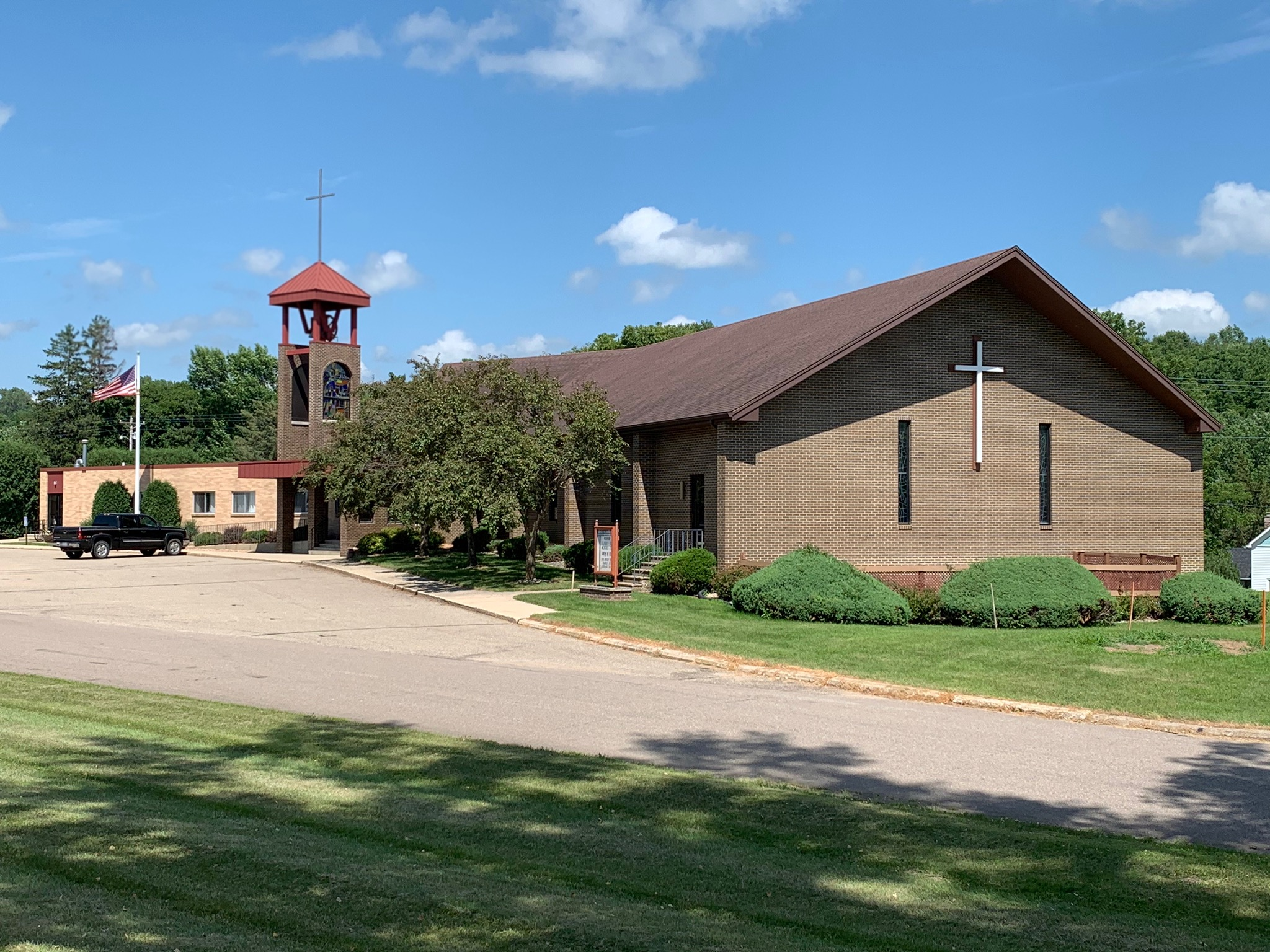 This image shows Grace Lutheran Church in Oronoco, MN.